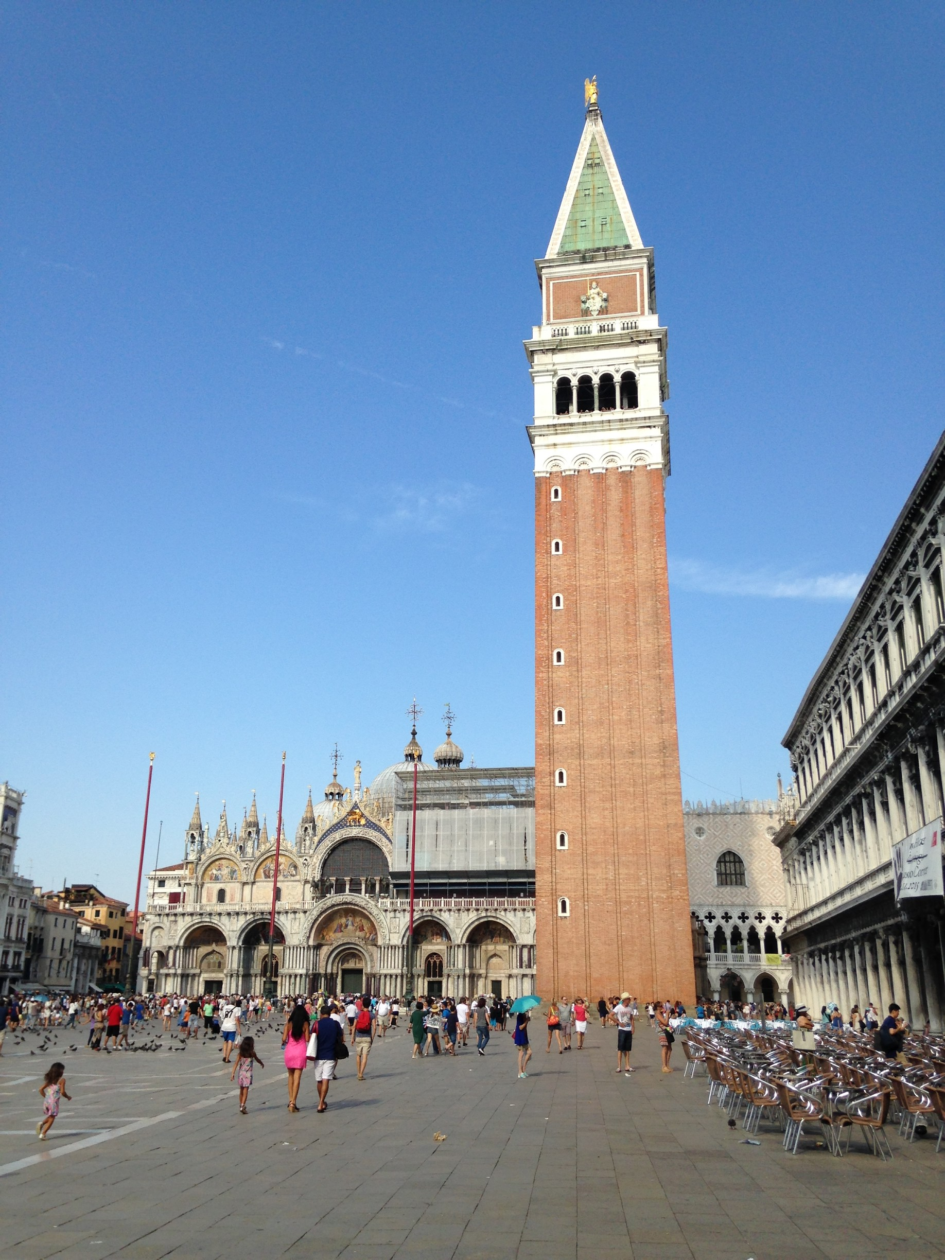 San Marco, 30100 Venice, Italy